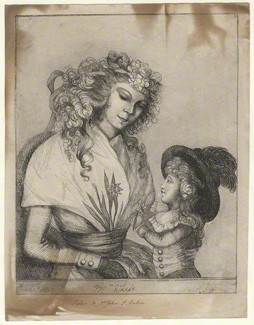 Mrs White (née St Aubyn) and child by Catherine Molesworth (nÈe St Aubyn), etching, published 1789